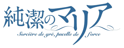 Maria the Virgin Witch logo